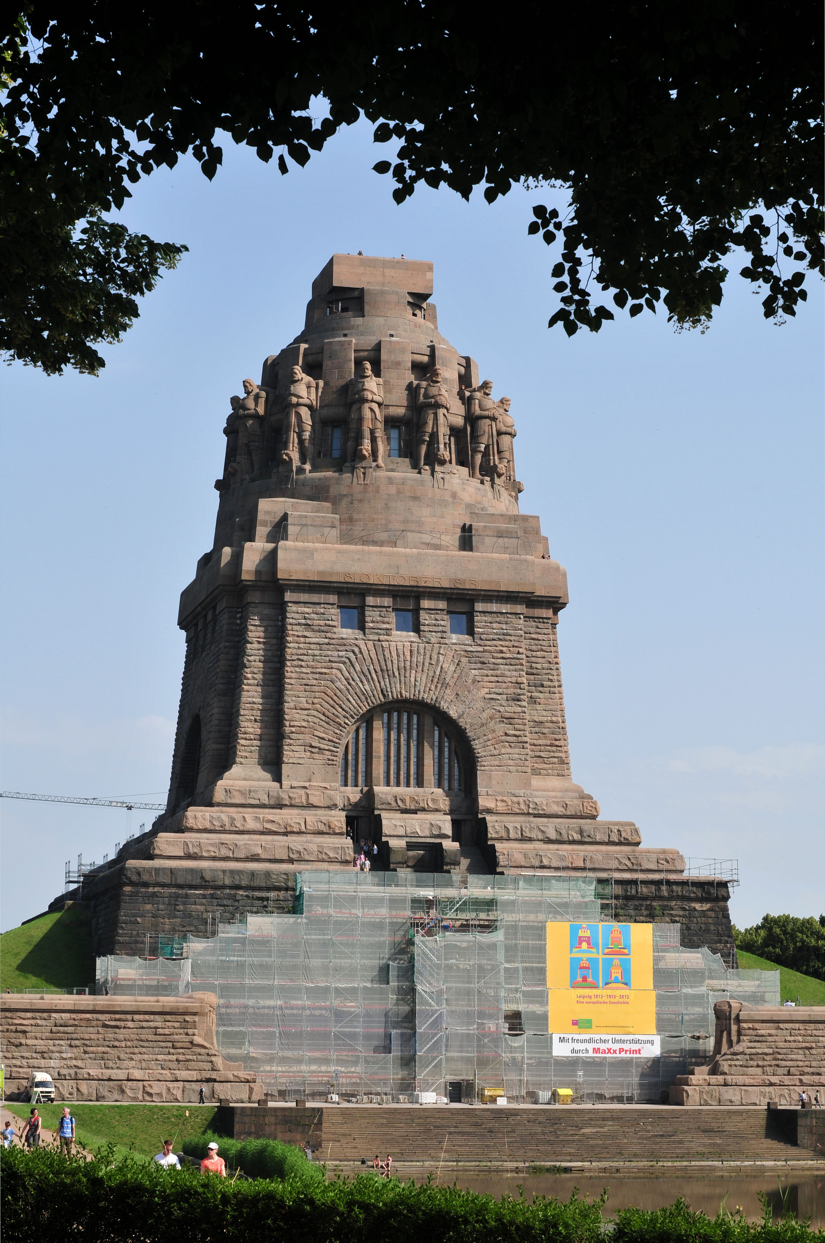 Völkerschlachtdenkmal Leipzig, Germany